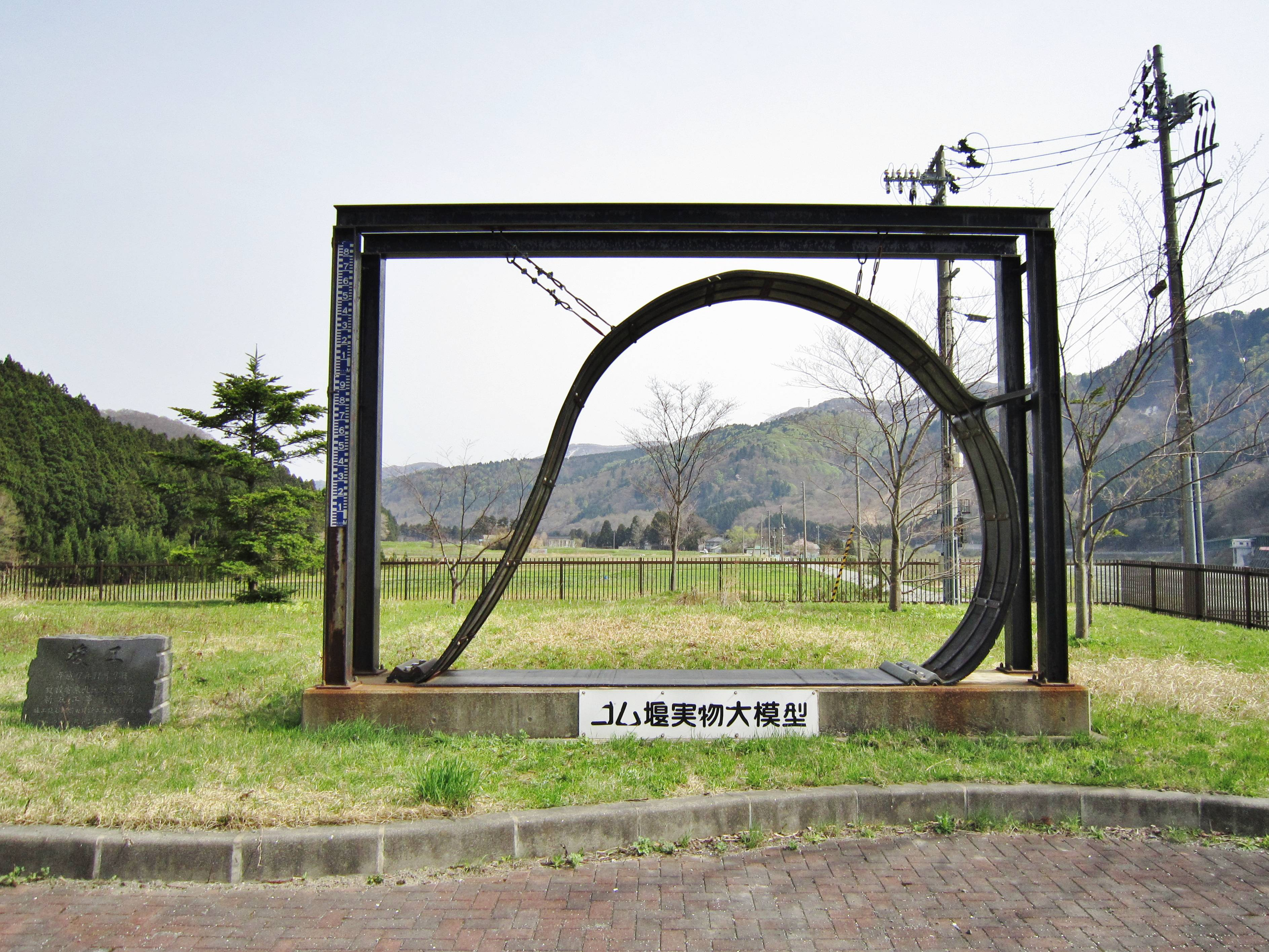 Mogamigawa Samidare Ōzeki cutaway monument.